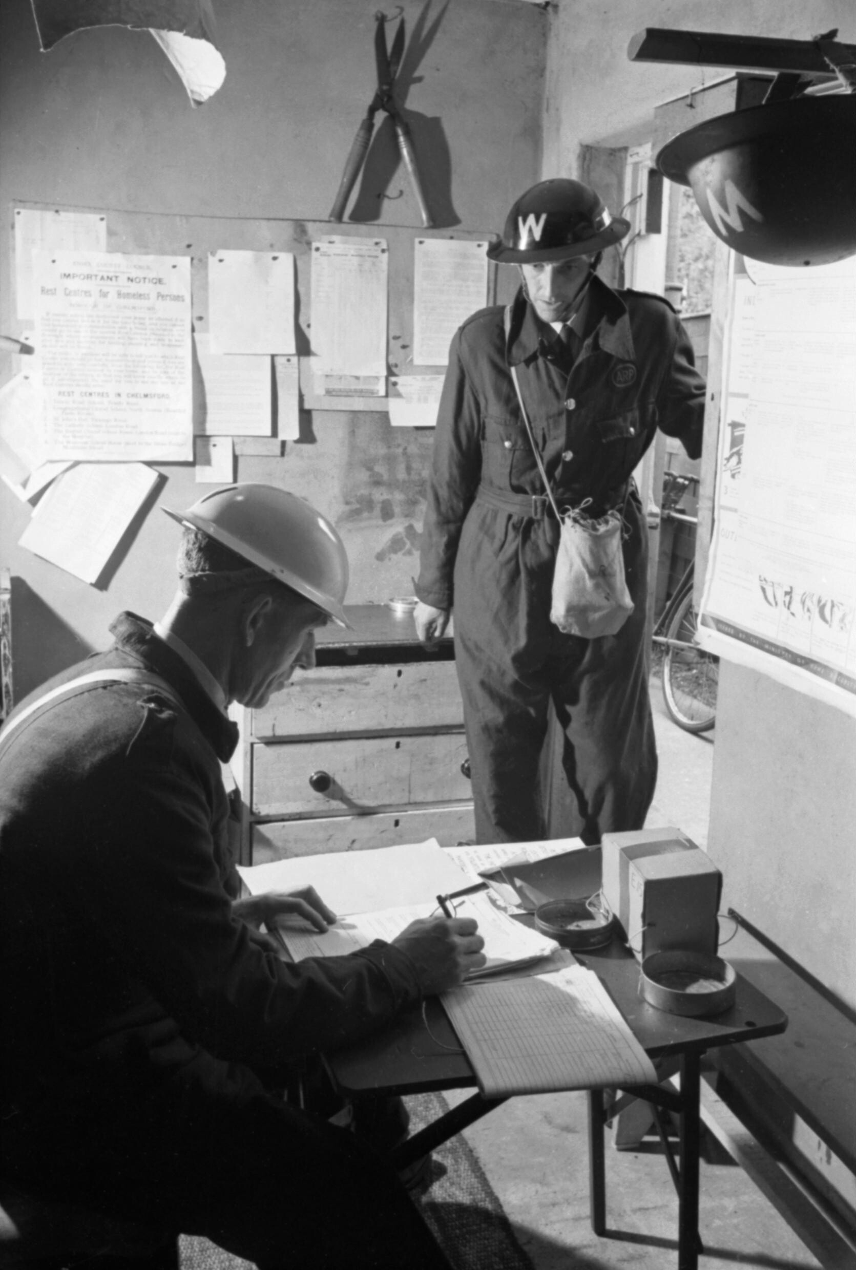 An Air Raid Precautions Warden reports for duty to the Chief Warden at his local ARP post in Springfield, Essex, aUGUST 1941. An Air Raid Precautions Warden reports for duty to the Chief ARP Warden, Mr Davies, at his local ARP post in Springfield, Essex.